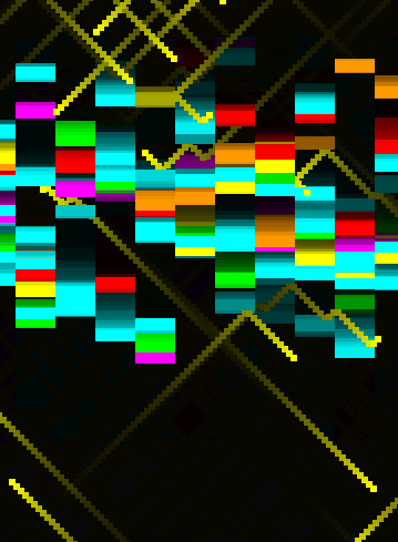 The classic 1980's computergame Breakout was heavily modified during a workshop by Dutch medialab SETUP to create visually interesting glitches.